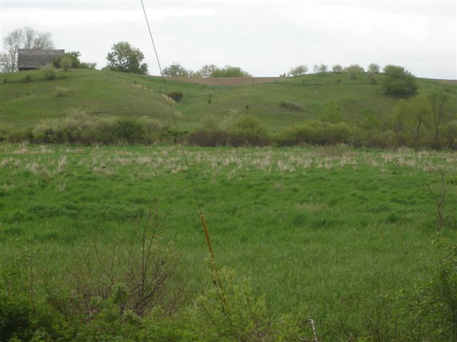 A small part of the Mason Esker, looking East from Kelly Rd. between Barnes and Plaines, Mason, MI. 42°31′36″N 84°21′2″W / 42.52667°N 84.35056°W